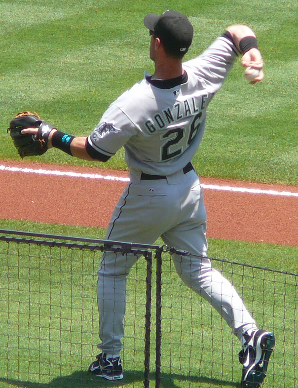 Please attribute photo with author's name if used somewhere other than Wikipedia. 18:38, 4 August 2008 . . Chrisjnelson . . 604×786 (573 KB)